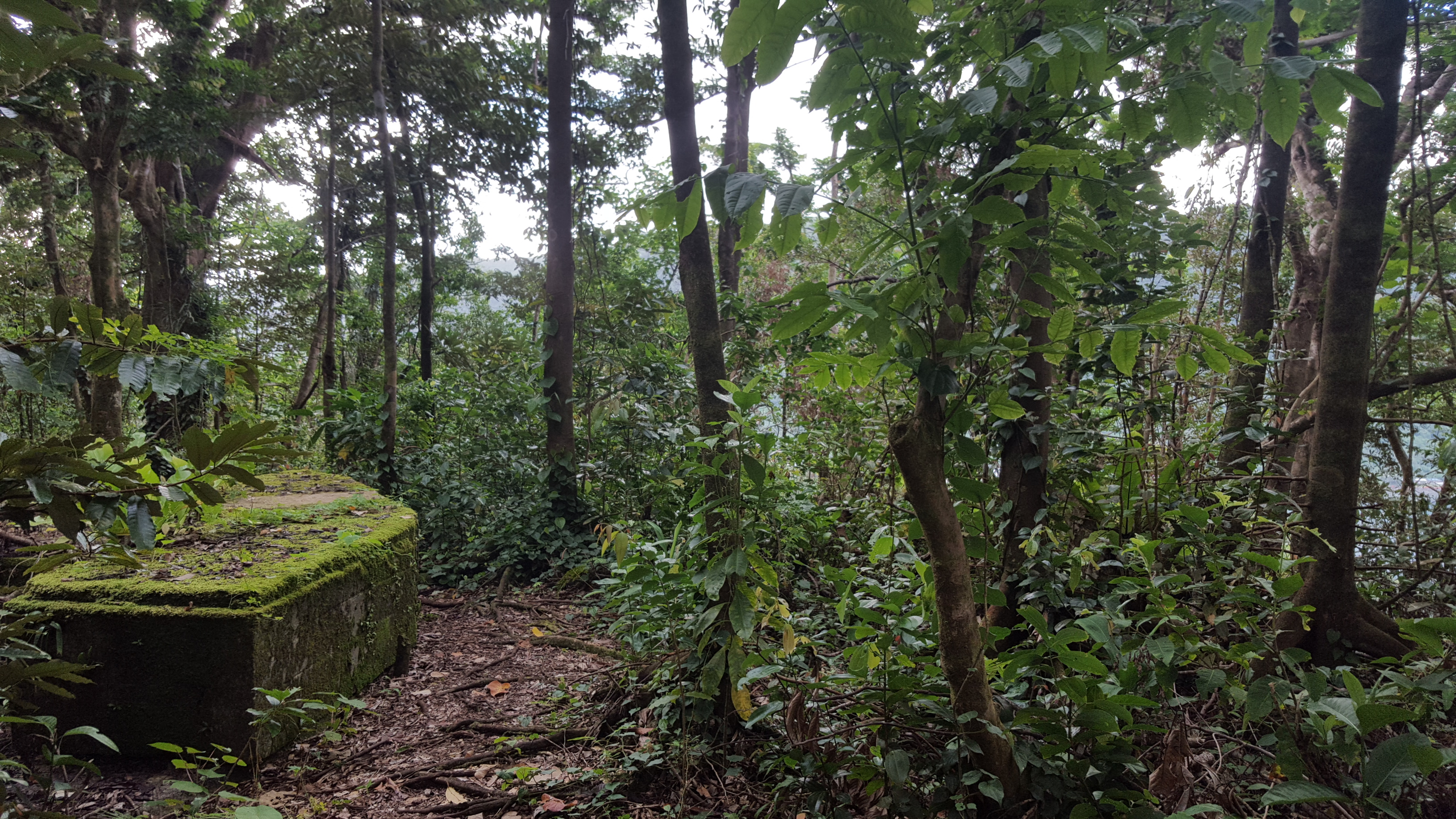 Run-down WWII encampments on the World War II Heritage Trail managed by the National Park of American Samoa